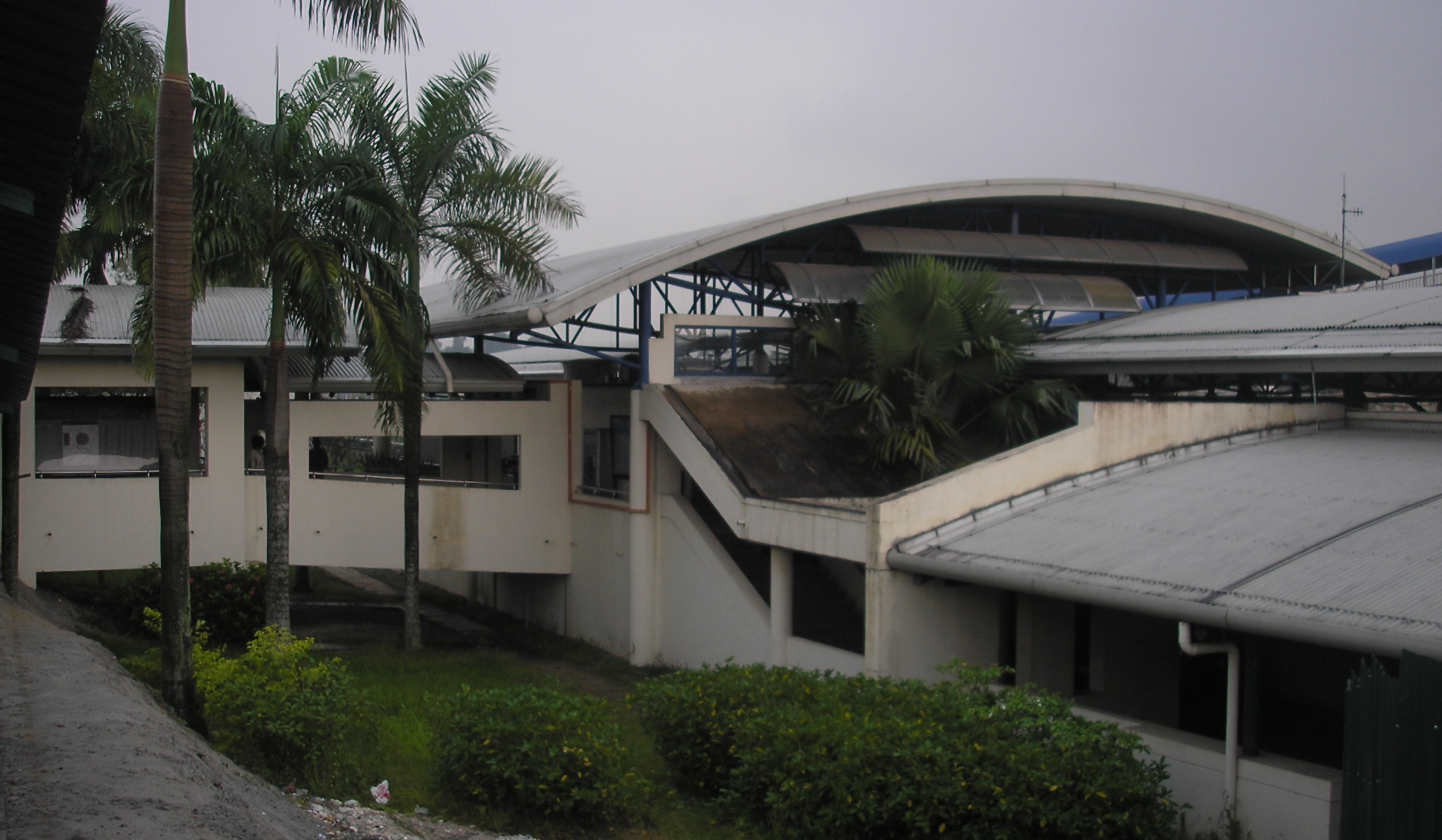 An exterior view towards the west of the Cheras station (Ampang Line, Sentul Timur-Sri Petaling route), in the Sungai Besi-Taman Ikan Emas border, Kuala Lumpur, Malaysia.